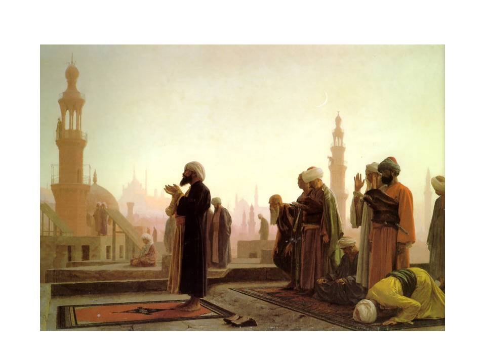 Prayer on the Housetops in Cairo